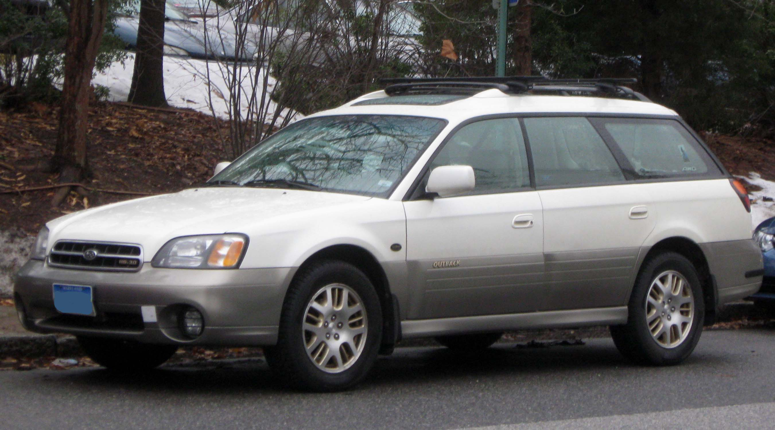 2000-2002 Subaru Outback photographed in Annapolis, Maryland, USA.